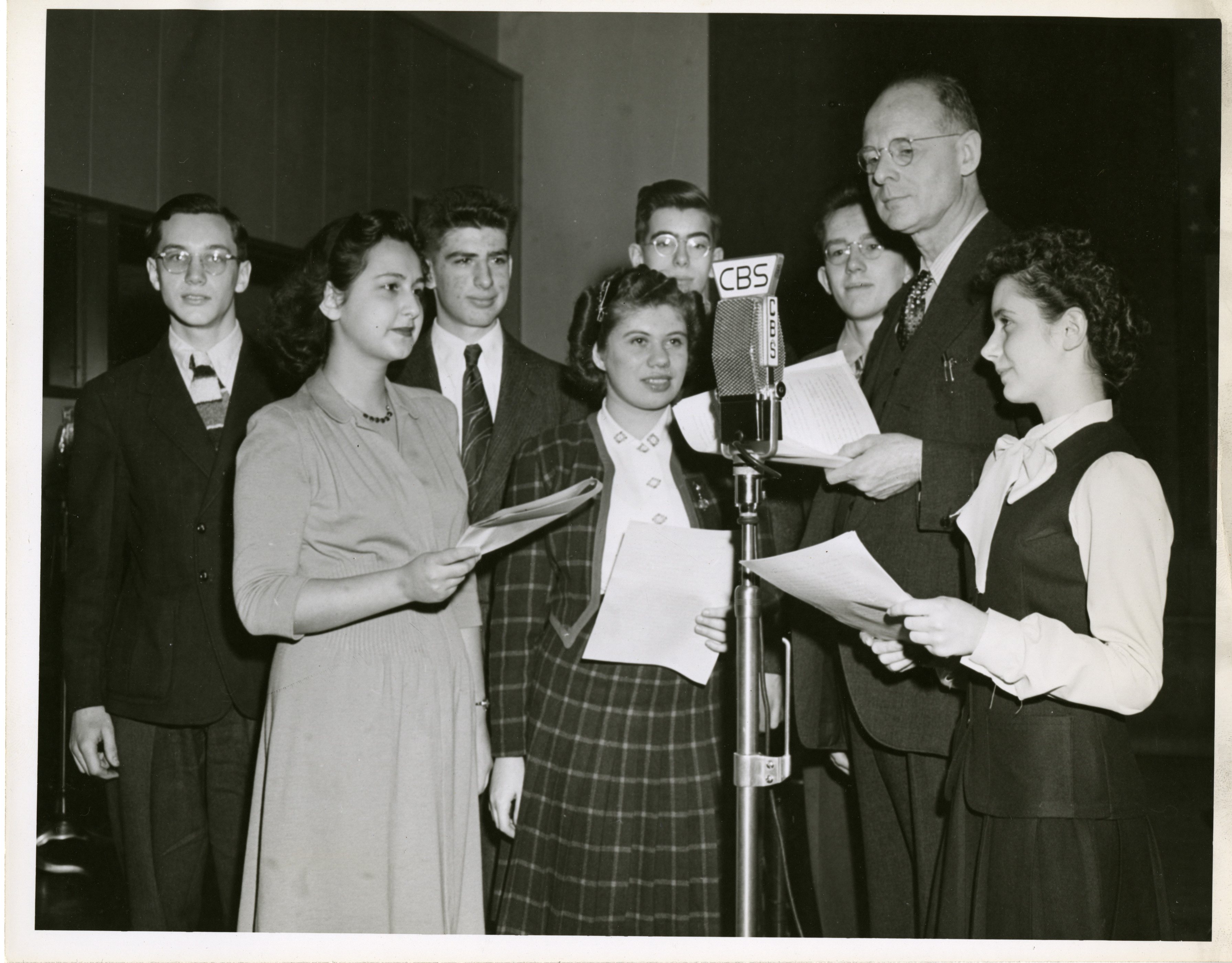 Creator: Science Service Subject: Thone, Frank 1891- Science Service Type: Black-and-white photographs Date: 1945 Topic: Science fairs Local number: SIA RU007091 [SIA2007-0007] Summary: Science Service biology editor Frank Thone (1891-1949) interviewed seven finalists in the fourth annual Science Talent Search on an Adventures in Science radio broadcast, February 17, 1945. Left to right: Matthew R. Kegelman, Ruth Reichart, Andrew M. Sessler, Madeline Lenore Levy, Richard Henry Milburn, Andrew Streitwieser, Frank Thone, and Marion Cecile Joswick. Ruth Reichart explained her interest in brain-wave patterns; Madeline Levy described her embryology experiments; and Marion Joswick told about her goal of becoming a research metallurgist Cite as: RU 7091 - Science Service, Records, circa 1910-1963, Smithsonian Institution Archives Persistent URL: Repository:Smithsonian Institution Archives View more collections from the Smithsonian Institution.